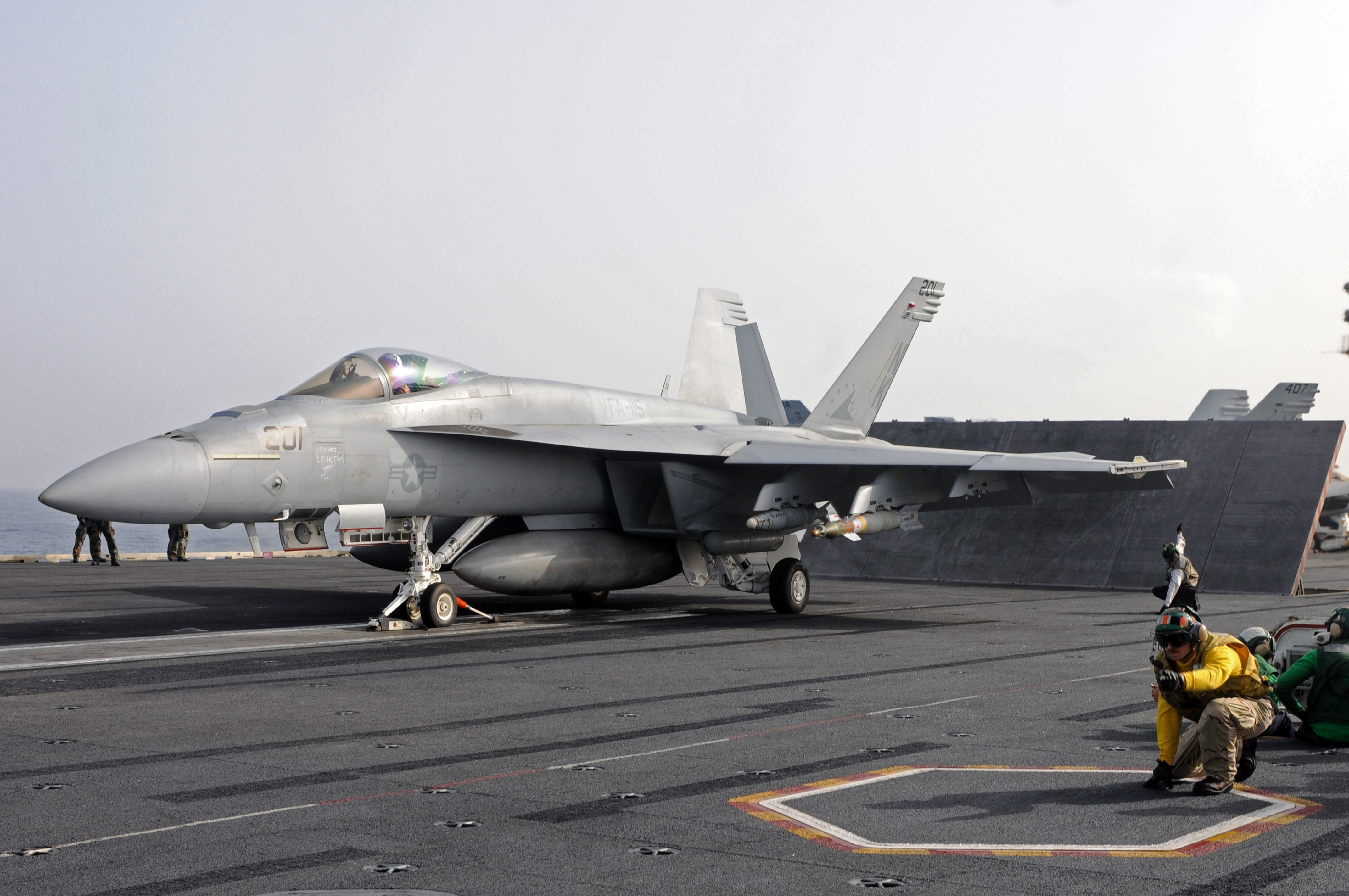 ARABIAN SEA (July 6, 2009) Lt. Jason Budde, a shooter aboard the aircraft carrier USS Ronald Reagan (CVN 76), launches an F/A-18E Super Hornet assigned to the "Eagles" of Strike Fighter Squadron (VFA) 115 off of the flight deck of the aircraft carrier. Shooters are naval aviators who give the final authorization on the flight deck for an aircraft to launch. Ronald Reagan is deployed in the U.S. 5th Fleet area of responsibility. (U.S. Navy photo by Mass Communication Specialist 3rd Class Torrey W. Lee/Released)